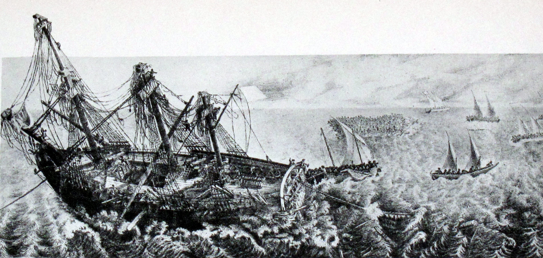 French frigate Méduse wrecked on the Bank of Arguin